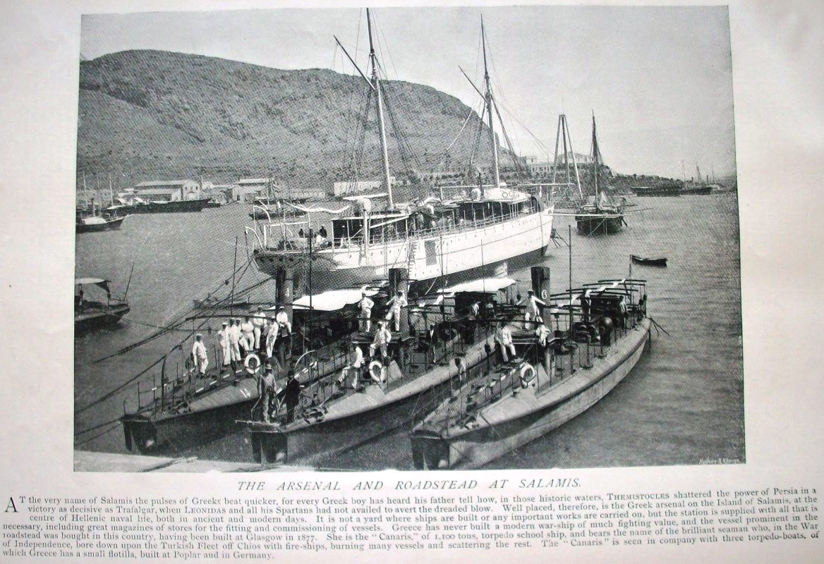 Greek torpedo boats and tender ship, Salamis 1897